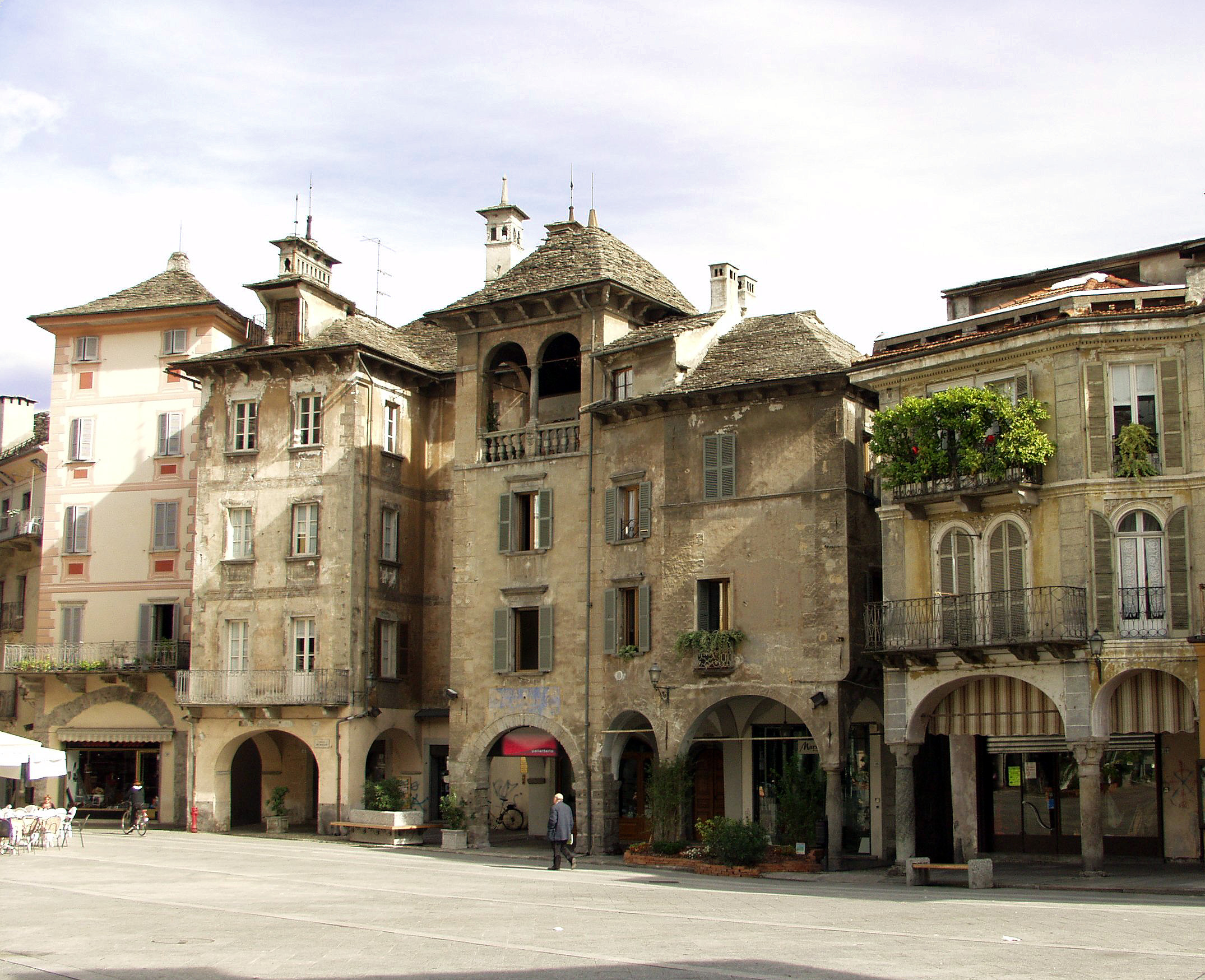 Domodossola town center.